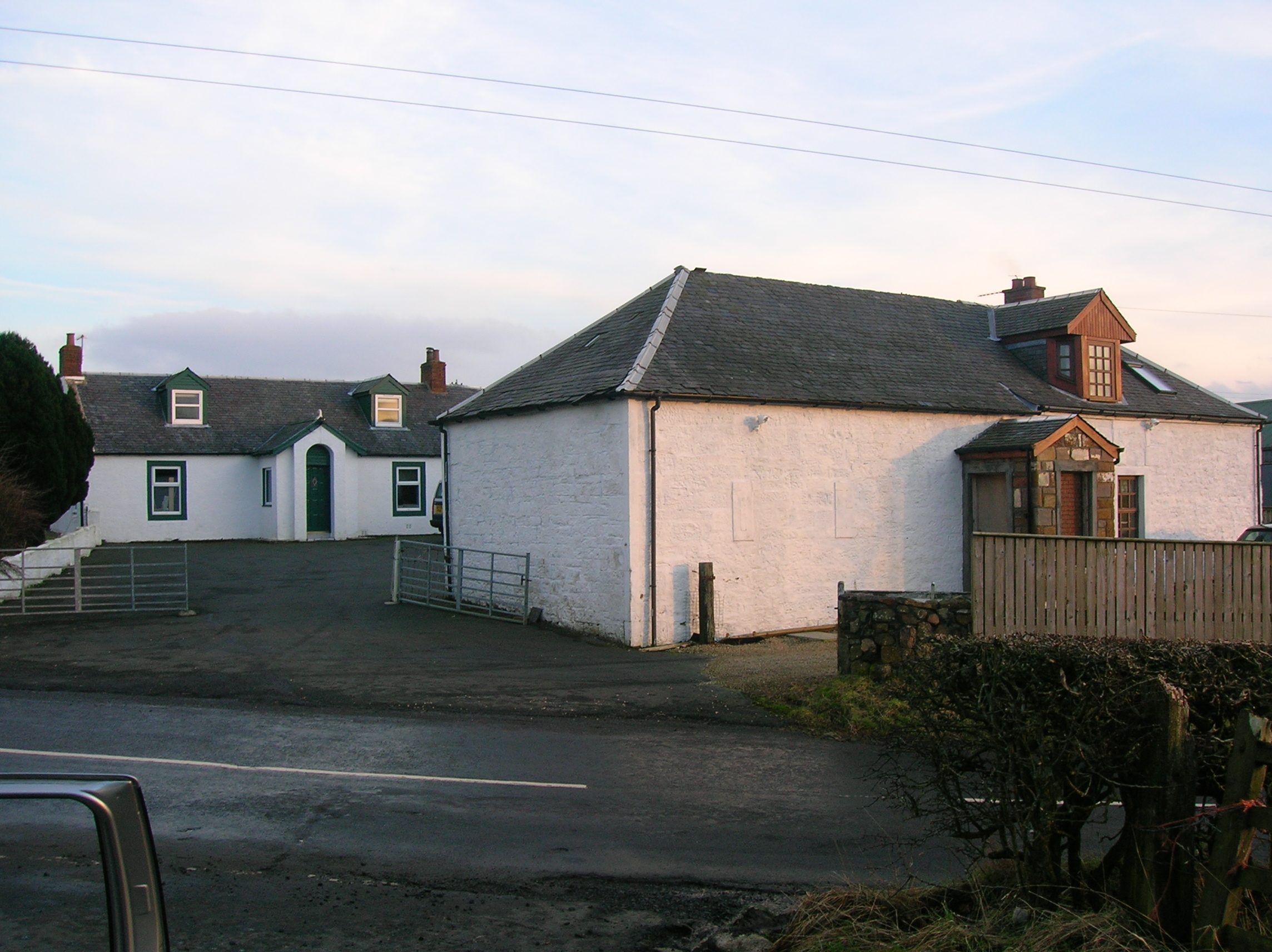 Little Sorn smallholding, East Ayrshire, Scotland